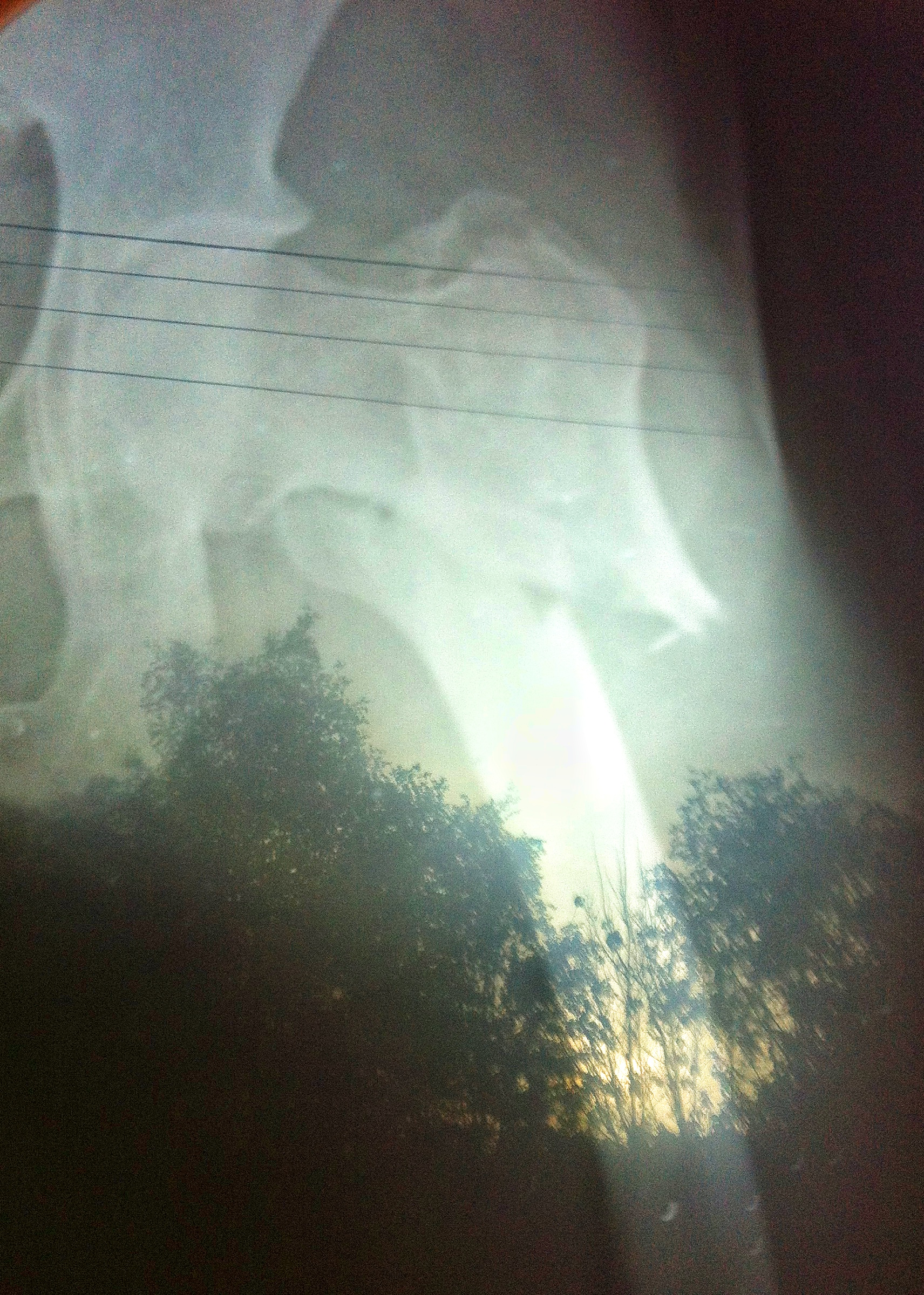 An X-Ray of a fractured femur, held up to the sky. Nepal